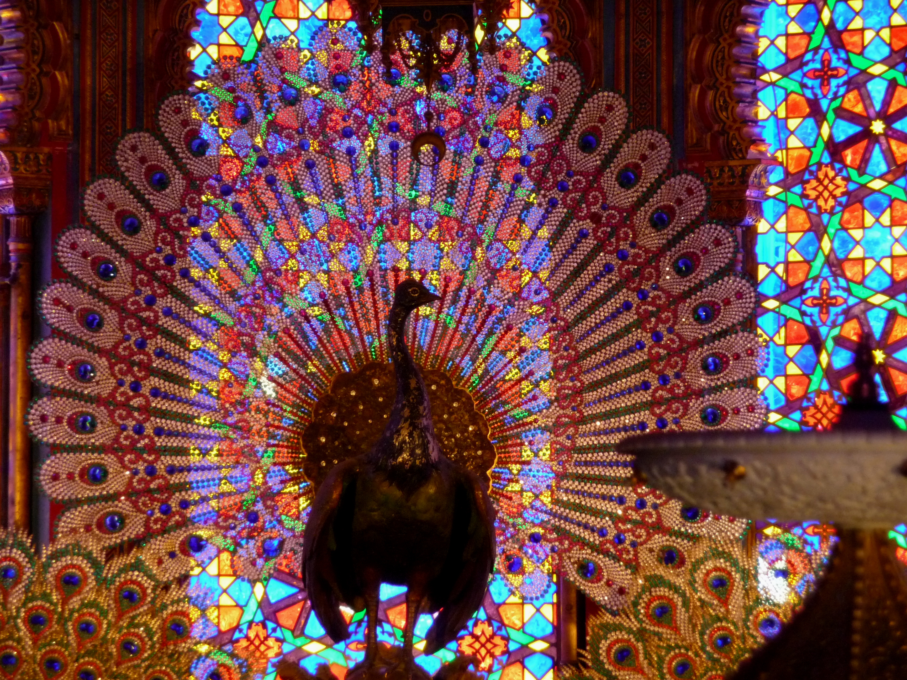 Peacock throne in Moorish kiosk at Linderhof Palace, Bavaria, Germany